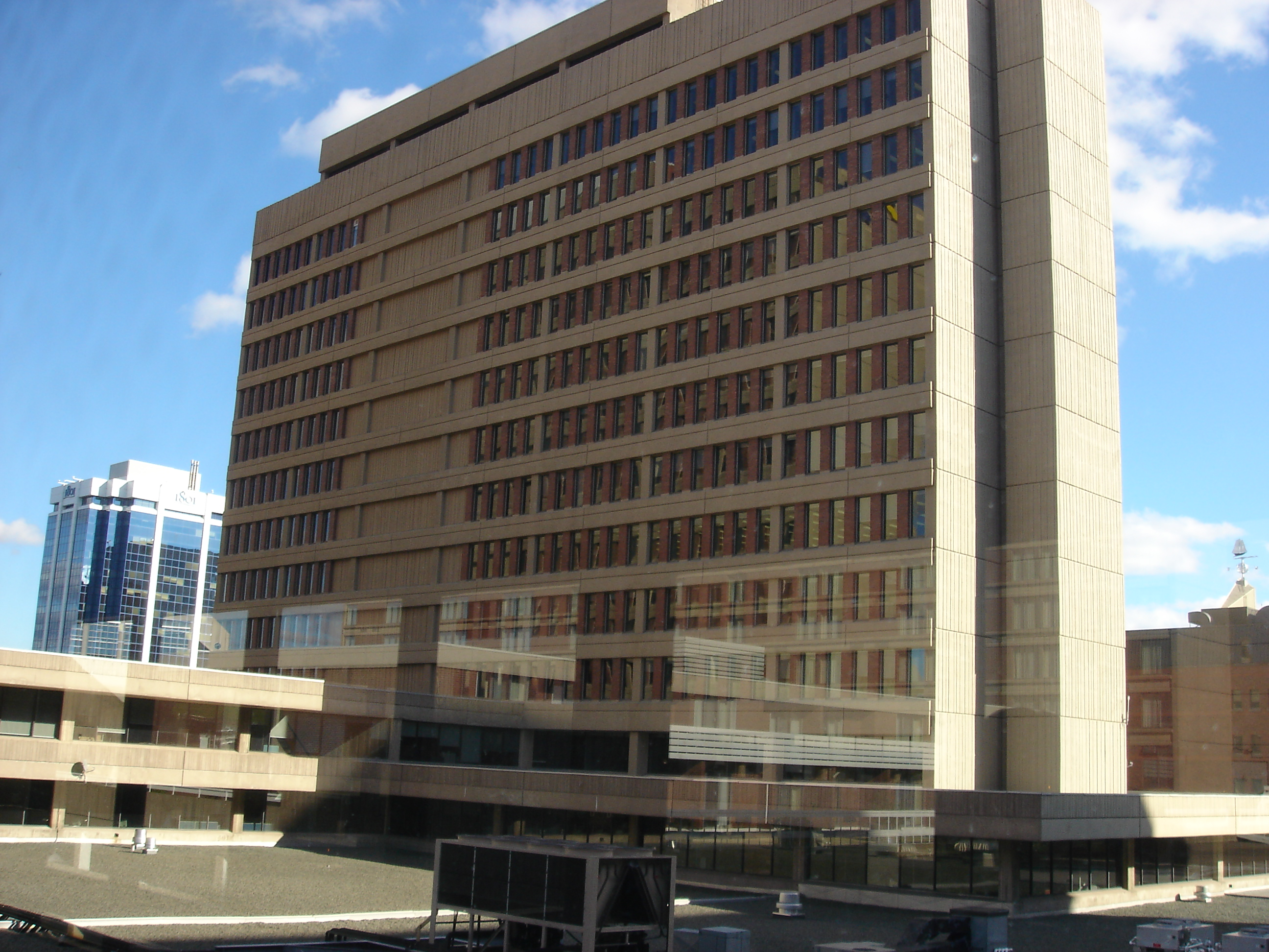 I am the author of this photo